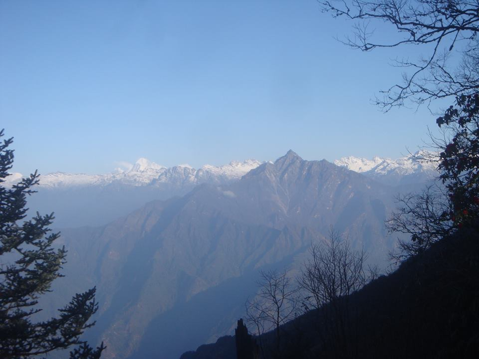 The mountain range of Kanchenjunga Conservation Area is seen from the trekking route to the holy Pathivara Temple.